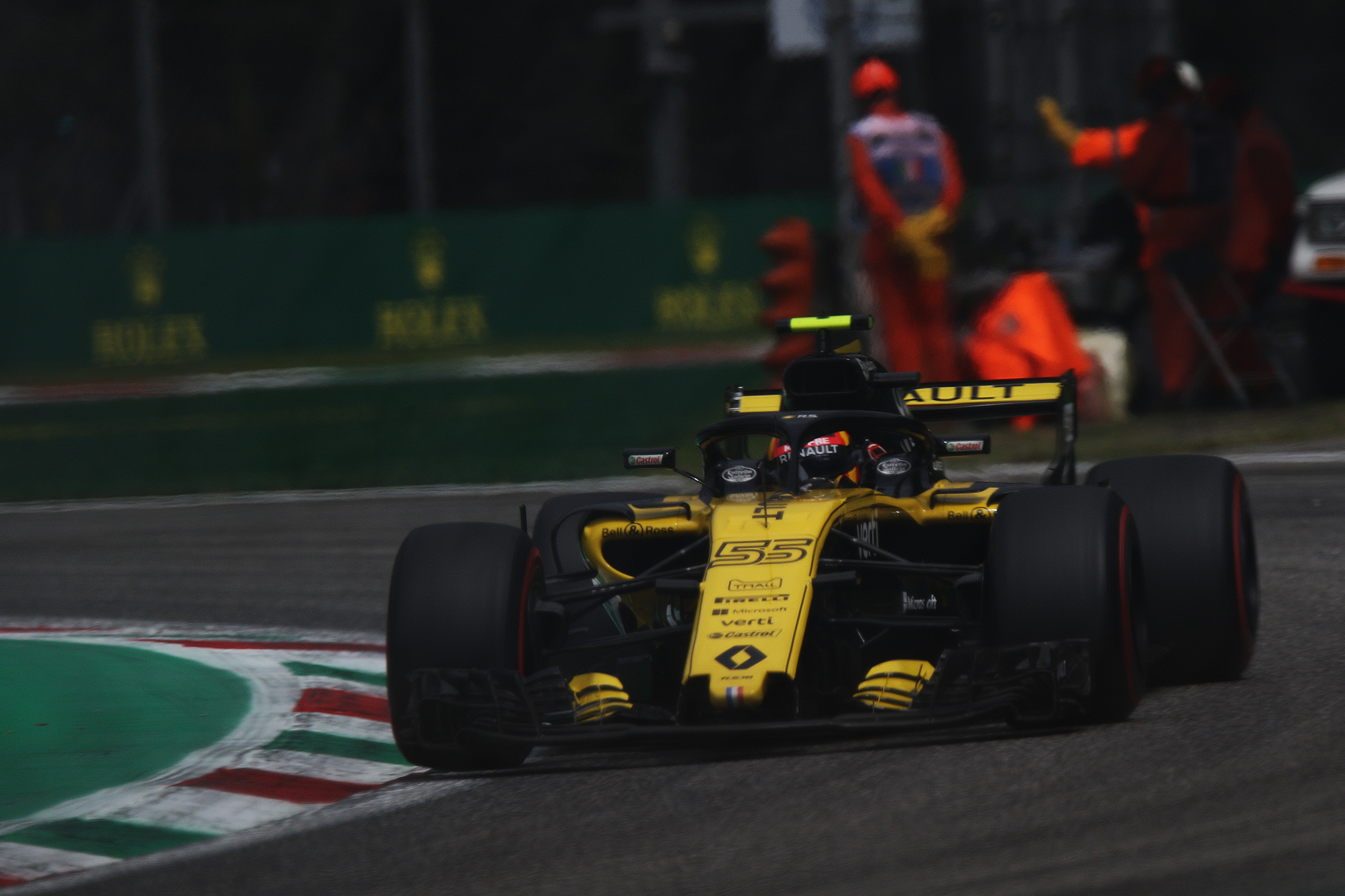 2018 Italian Grand Prix.